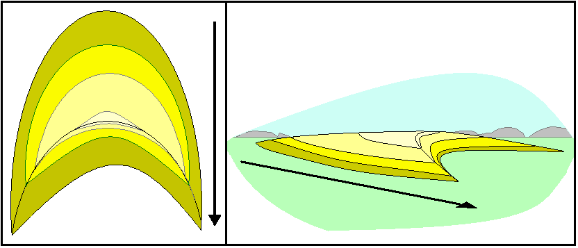 Sematic view of a barchan.